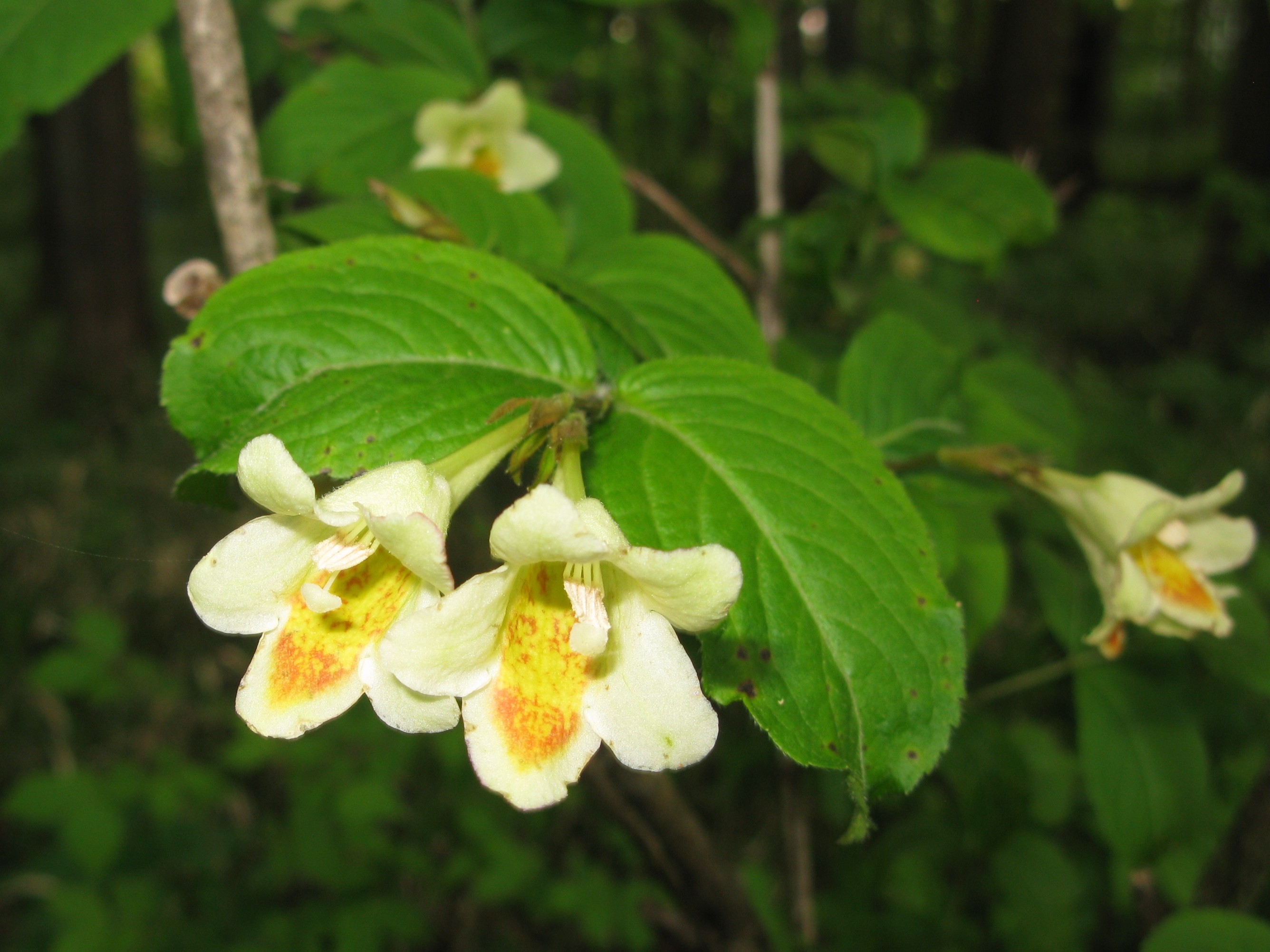 Weigela maximowiczii, Botanical Gardens, Nikko, Graduate School of Science, The University of Tokyo, Tochigi pref., Japan